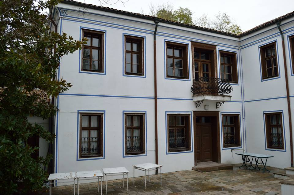 Georgi Bojilov House-Museum